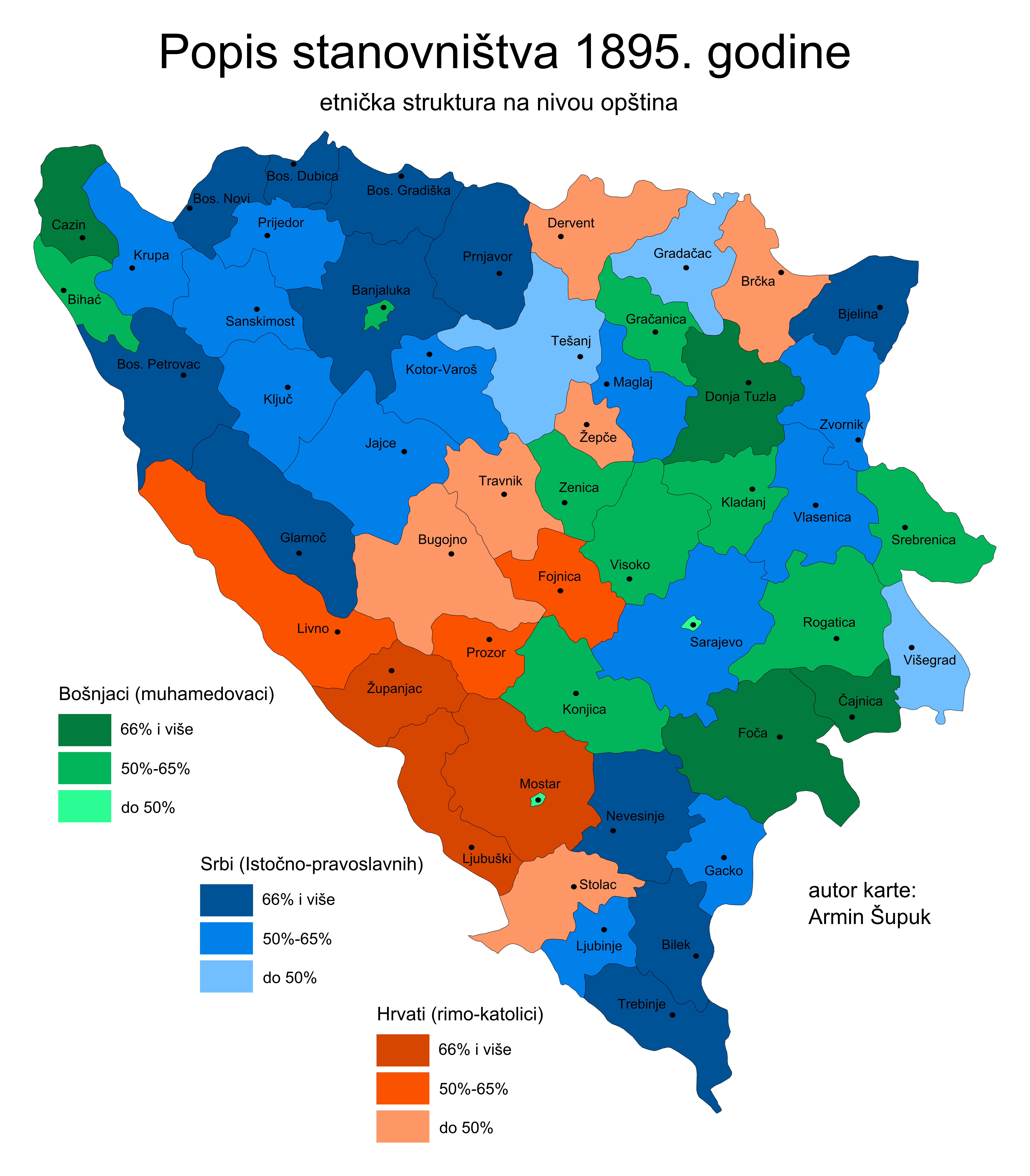 Ethnic map of Bosnia and Hercegovina from 1895.